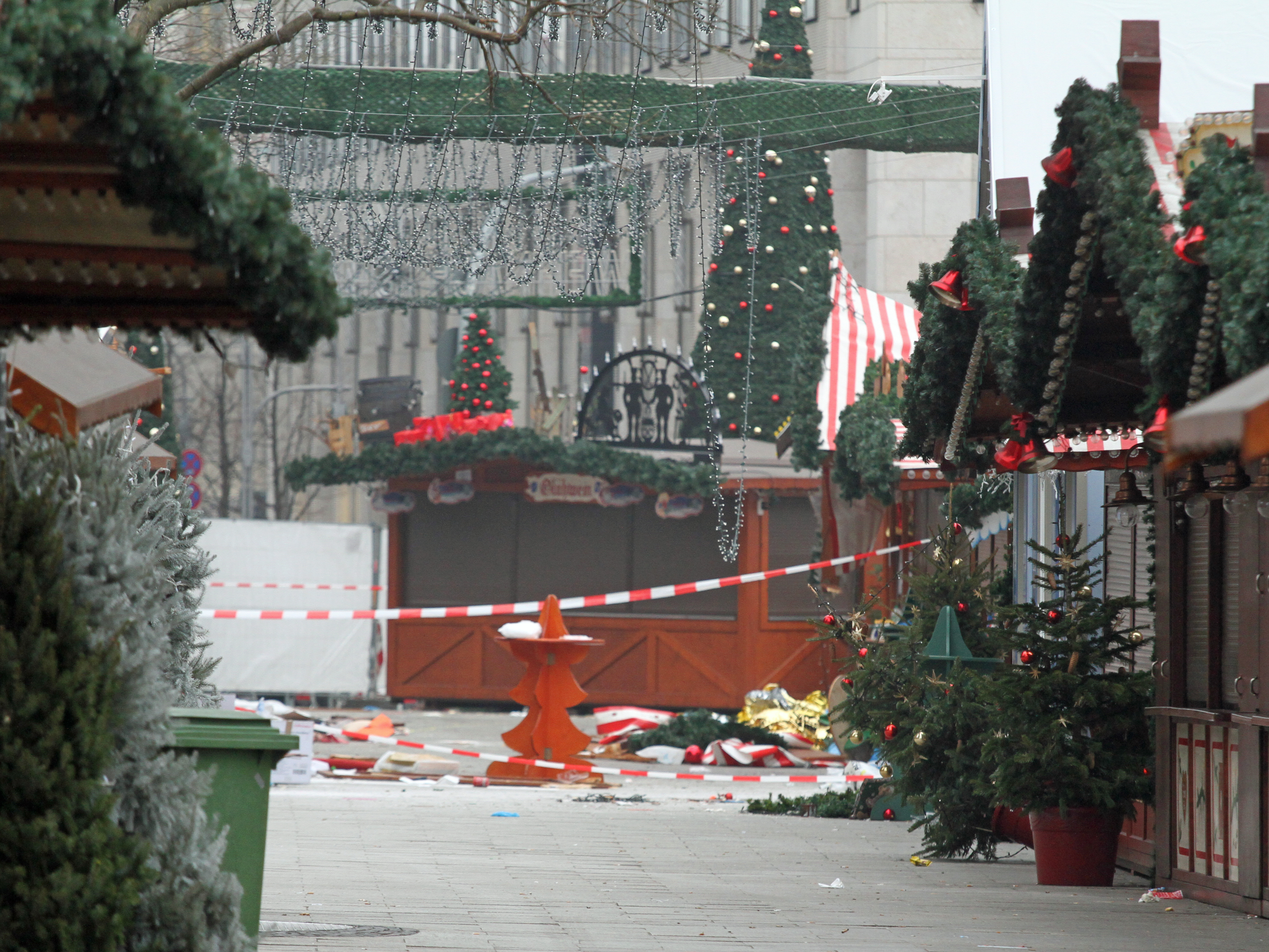 Berlin terrorist attack, 19 December 2016: pictures from the day after